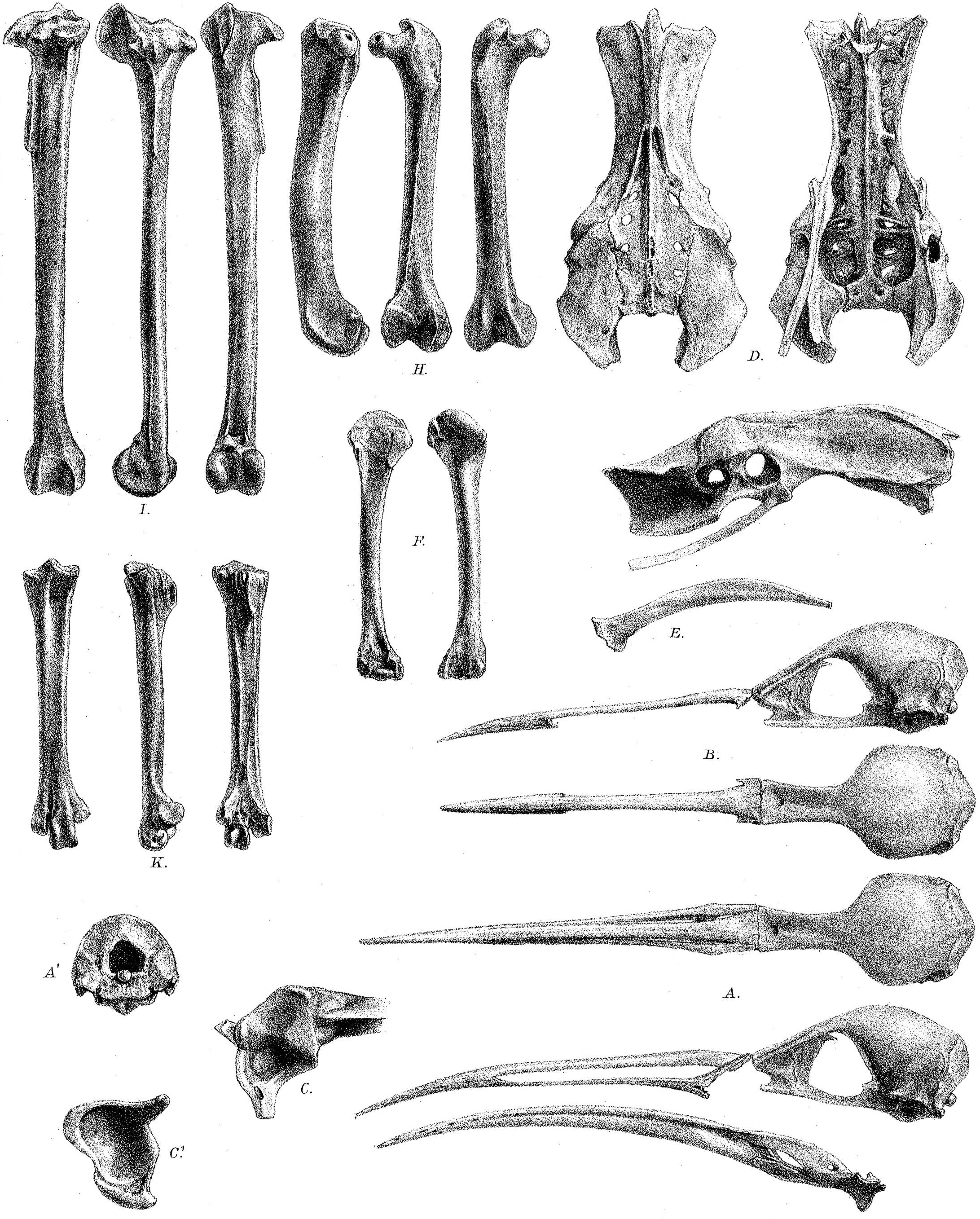 Subfossil bones of Erythromachus leguati. A-B cranium, C. articular surface of mandible[1]